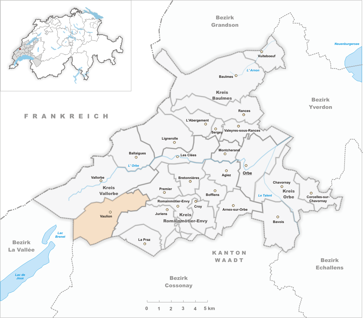 Municipality Vaulion